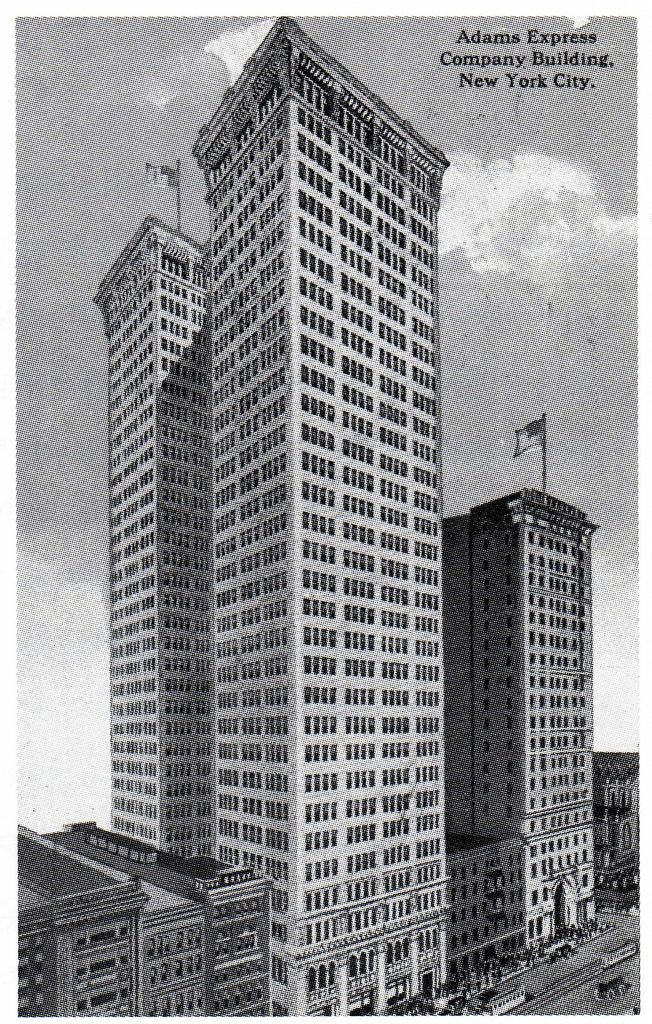 A 1914 postcard view of the newly completed Adams Express Company Building at 61 Broadway in lower Manhattan